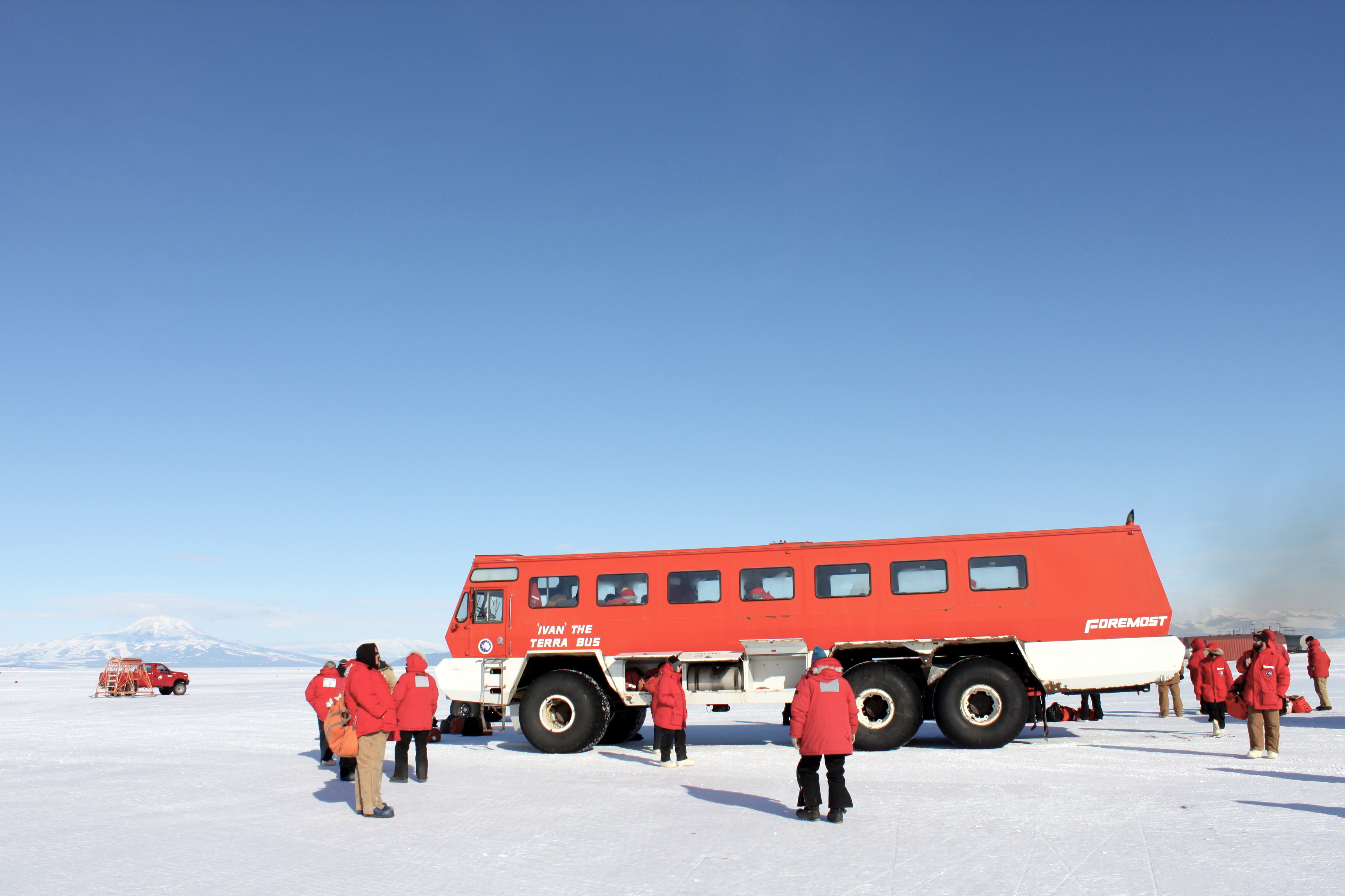 Antarctica: The Flight Back to NZ